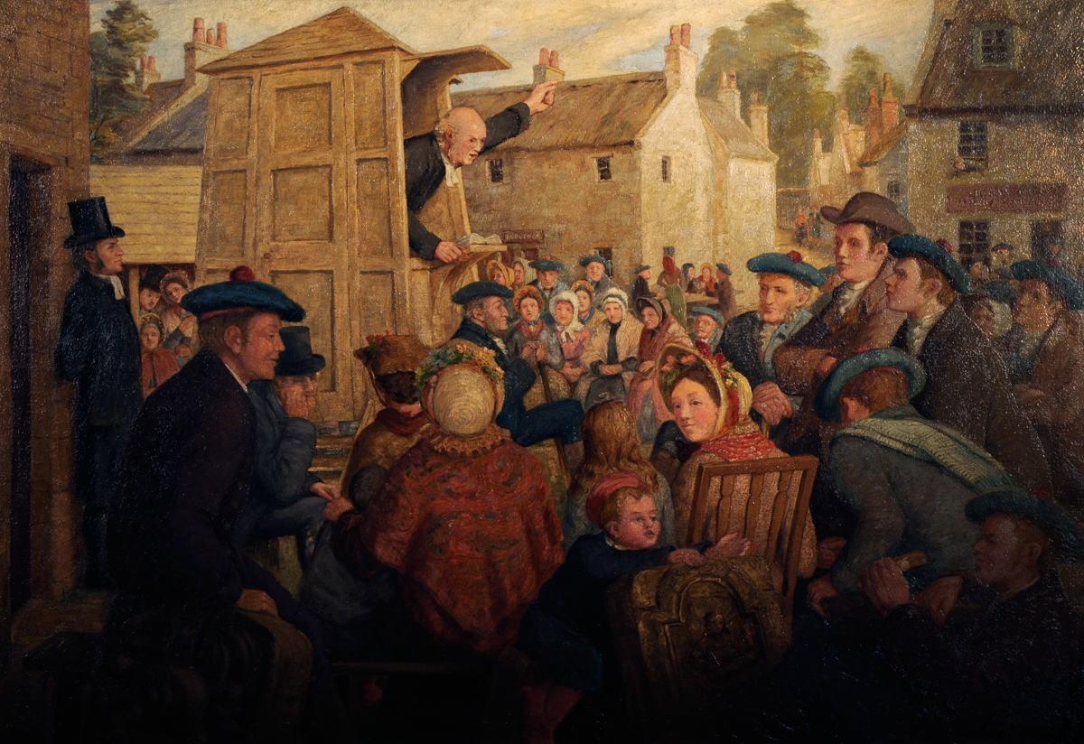 Painting of a holy fair